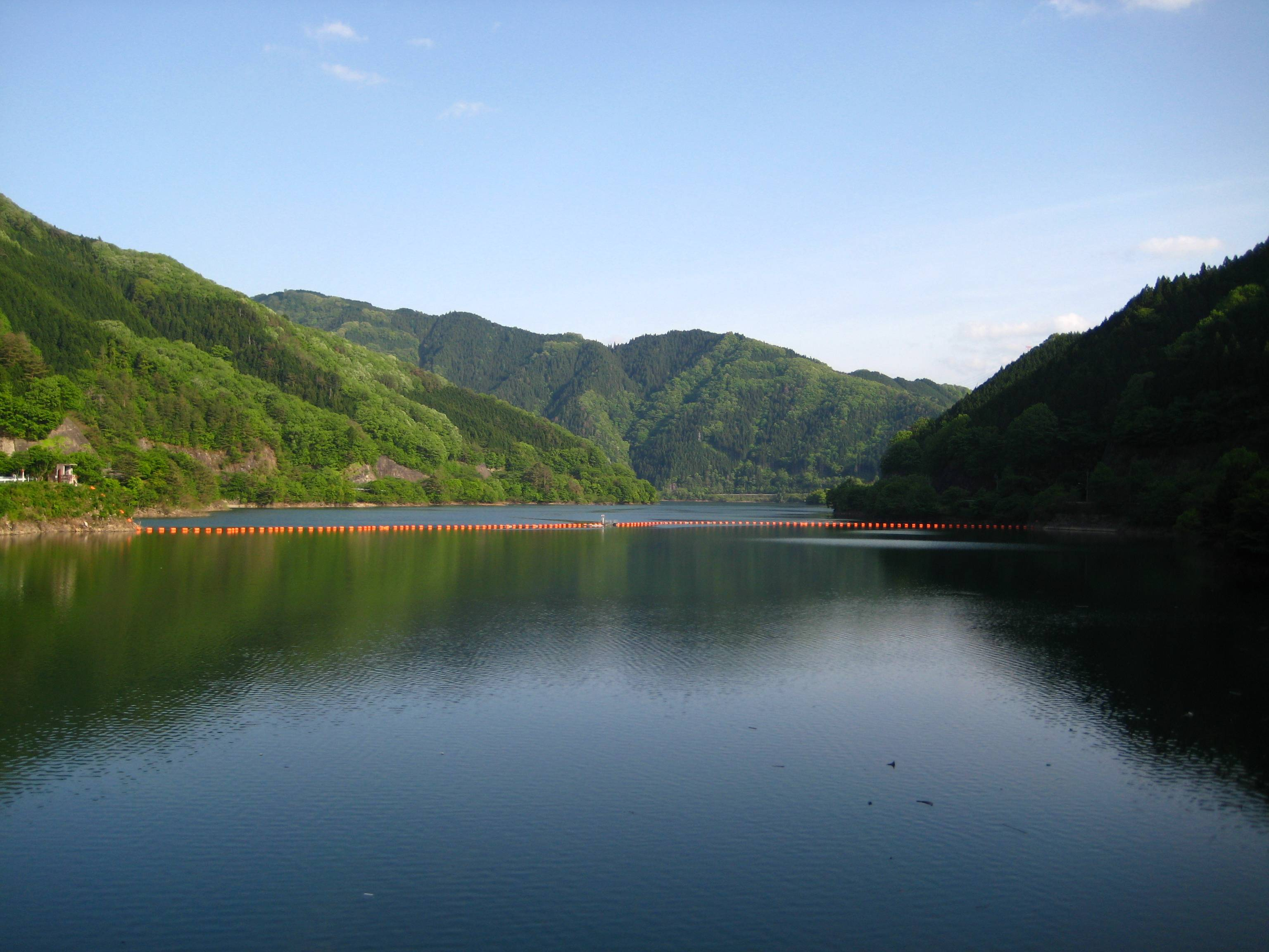 Lake Okuyahagiko (view from Yahagi Dam).